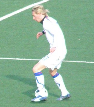 Miloš Krasić in action for PFC CSKA Moscow